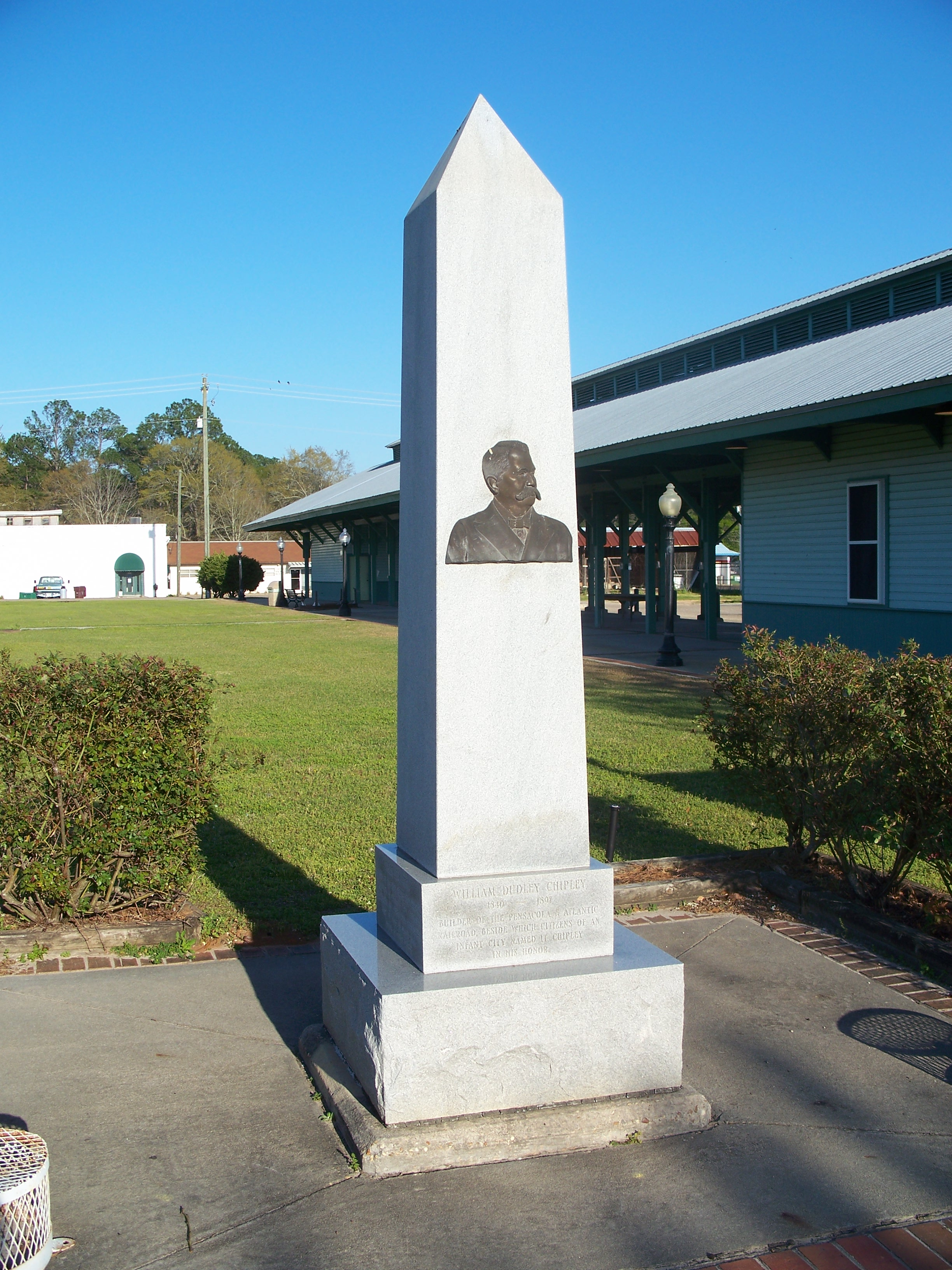 Chipley, Florida: Memorial to William Dudley Chipley, near the old depot.